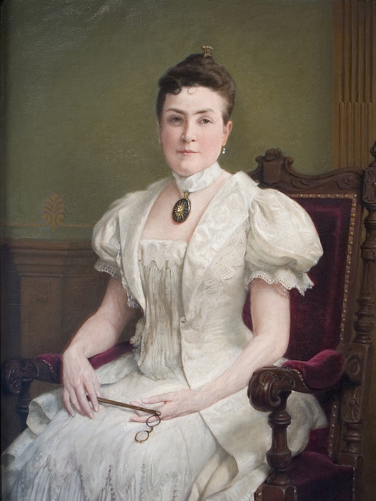 Portrait of Hawkins, Annmary Brown (1837-1903)